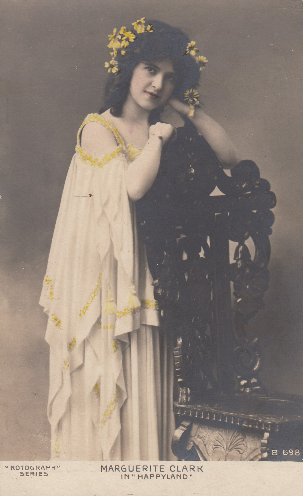 Hand tinted RPPC postcard of Actress Marguerite Clark as the character Sylvia in the play “Happyland.”